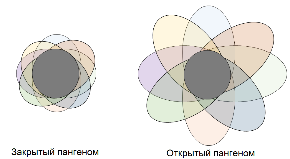 Difference between open and closed pangenomes visualized as Venn diagrams.